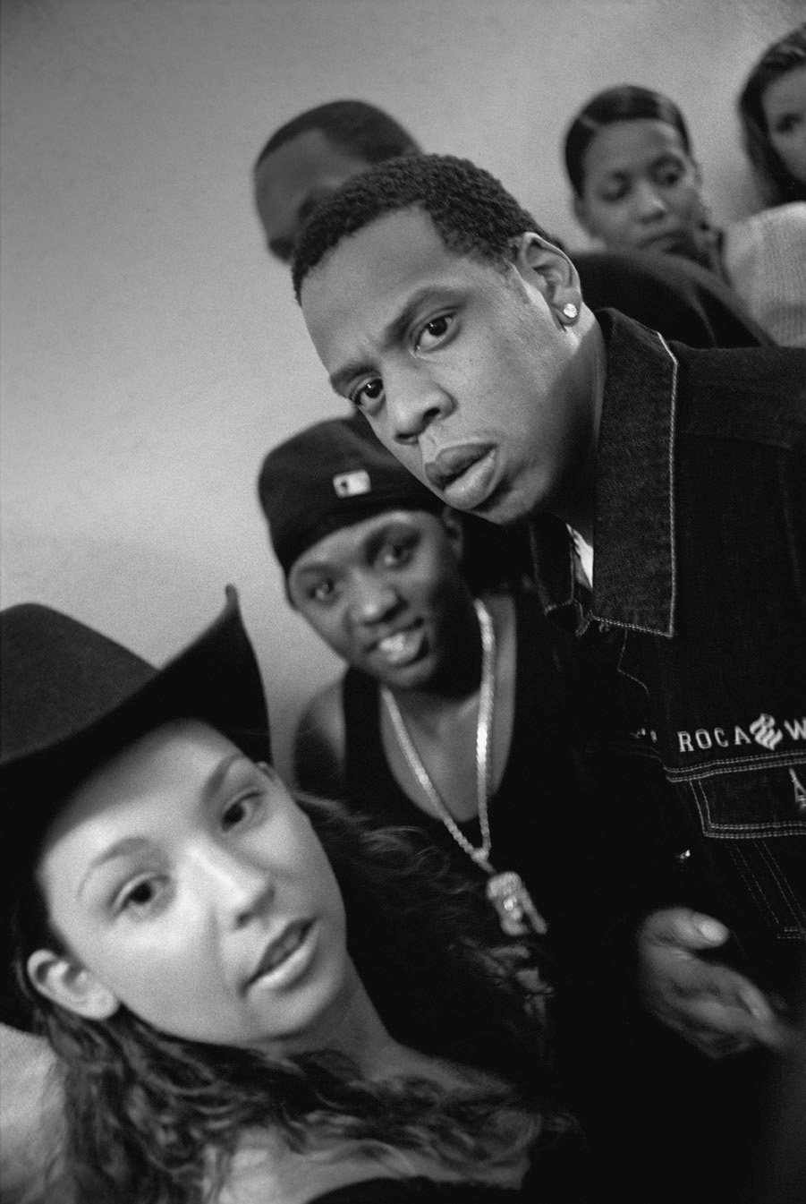 Jay-Z in Cologne/Germany backstage 2000